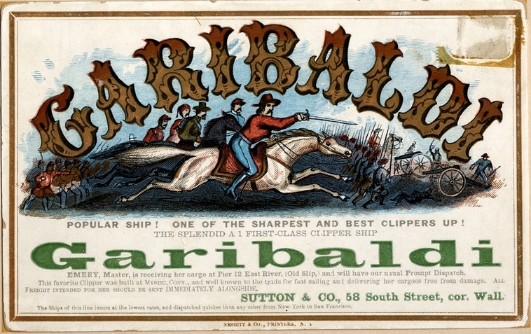 Sailing card for the clipper ship Garibaldi.